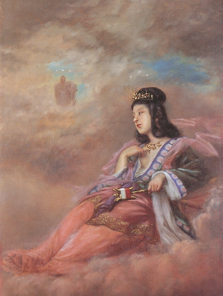 one of the twelve signs of the oriental zodiac, called the ox "Altair".